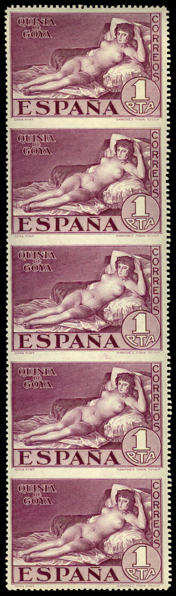 Vertical strip of five imperforate between postage stamps of Spain, The Naked Maja by Francisco de Goya, 1930, 1 pta.